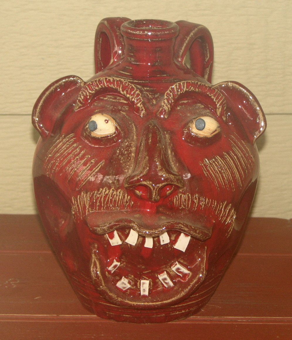 Face Jug by Charlie Lisk